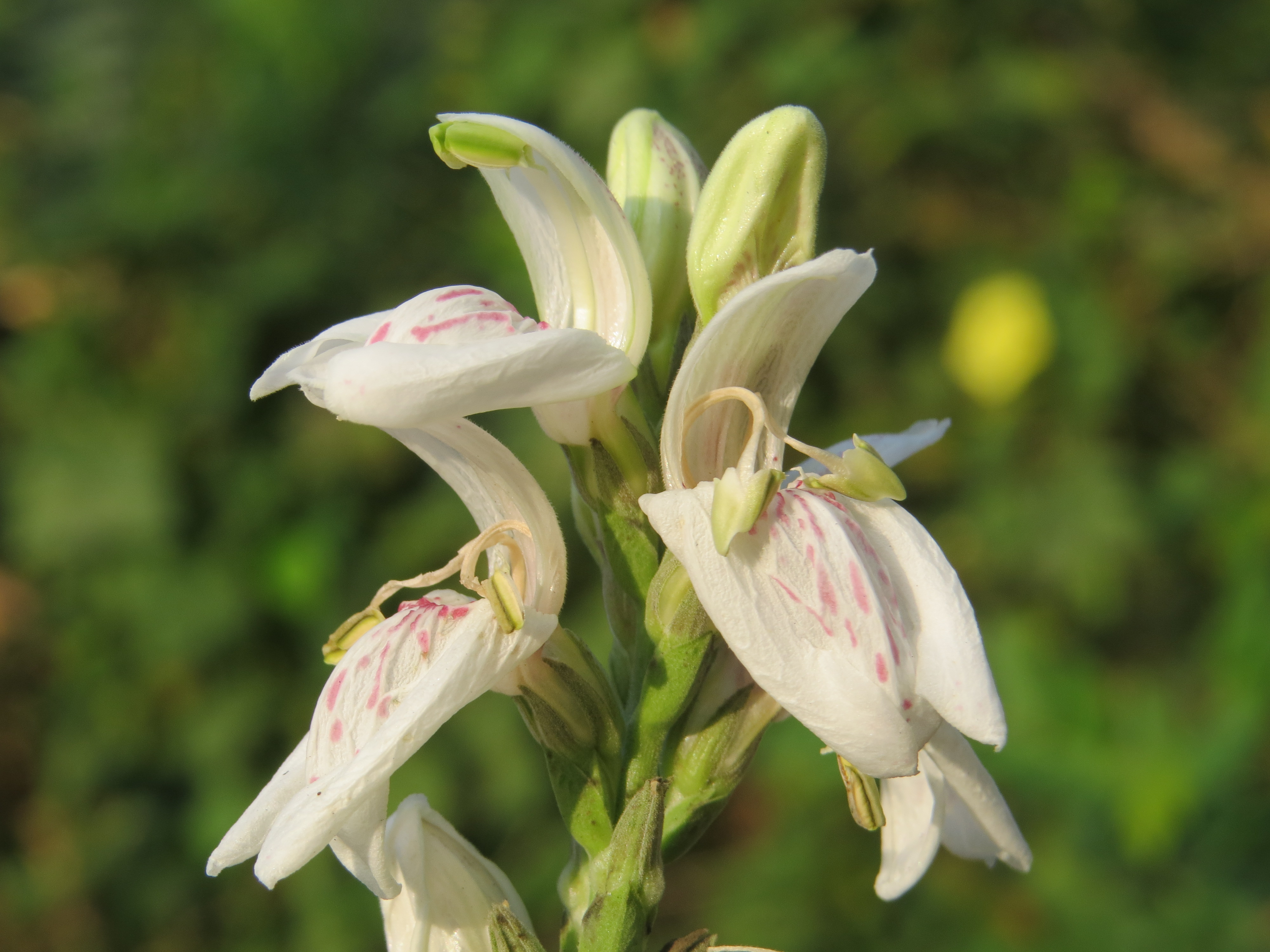 Plant photos from Periya, Wayanad